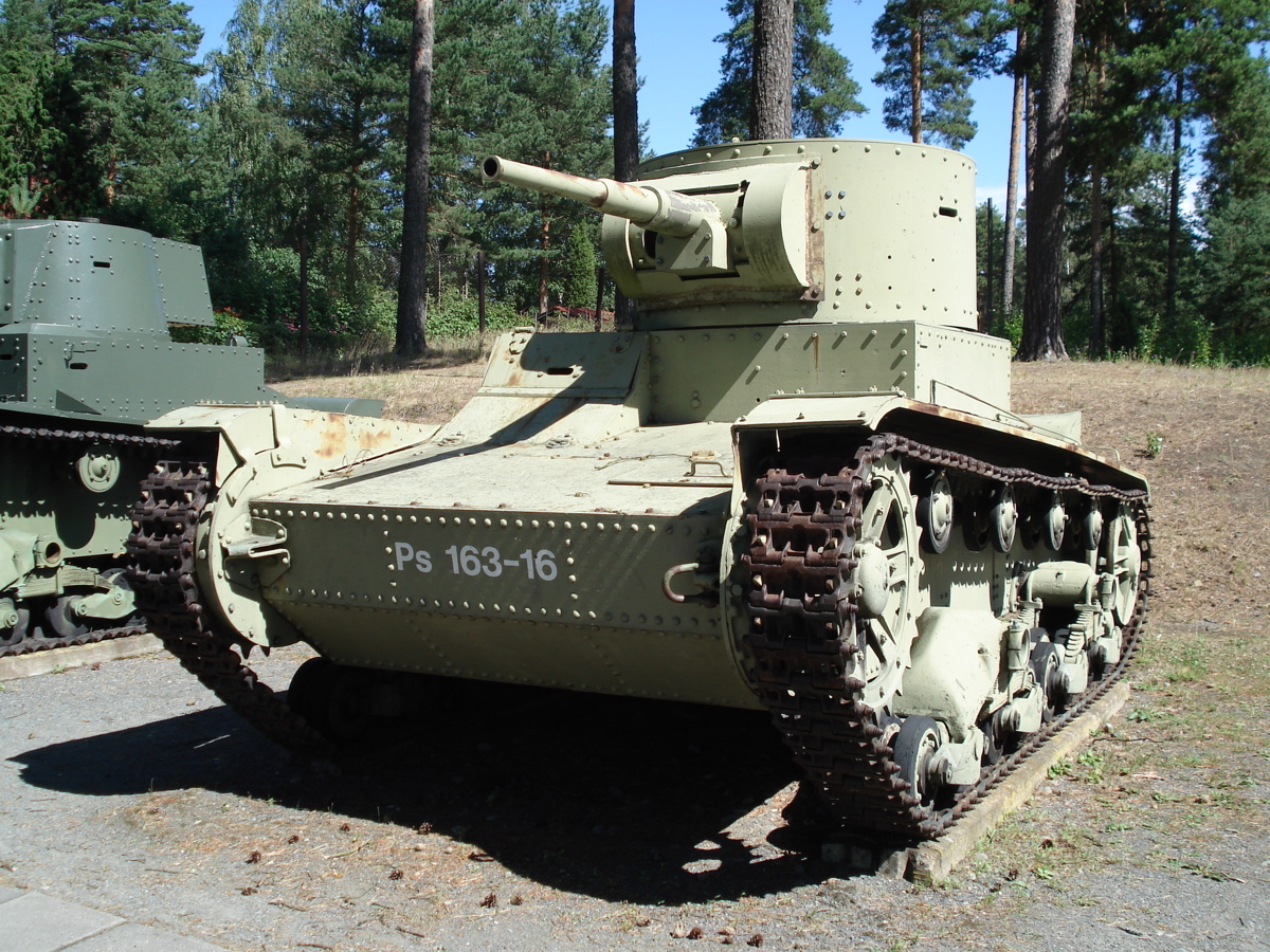 Soviet T-26 model 1933 tank, displayed in Finnish Tank Museum (Panssarimuseo) in Parola. Photo taken on July 14, 2006. Source: Photo by me, User:Balcer.